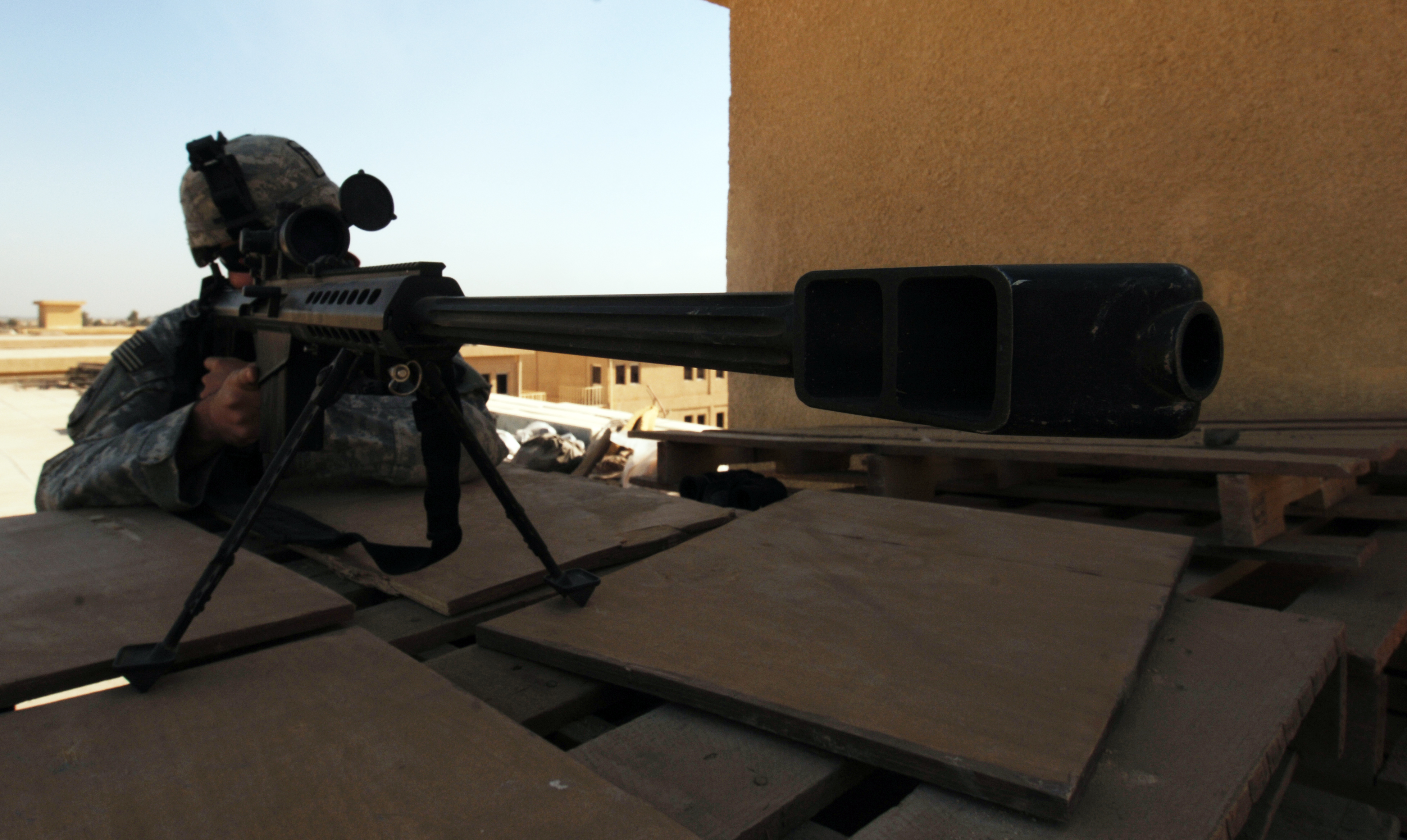 Sgt. Jeremy Rutledge watches the perimeter with his 50 Caliber Sniper rifle, November 29, 2007, Mahmudiyah, Iraq. Sgt. Rutledge is from the 3rd Battalion, 187th Infantry Regiment, 3rd Brigade Combat Team, 101st Airborne Division.(U.S. Army photo by Spc. Luke Thornberry)(Released)